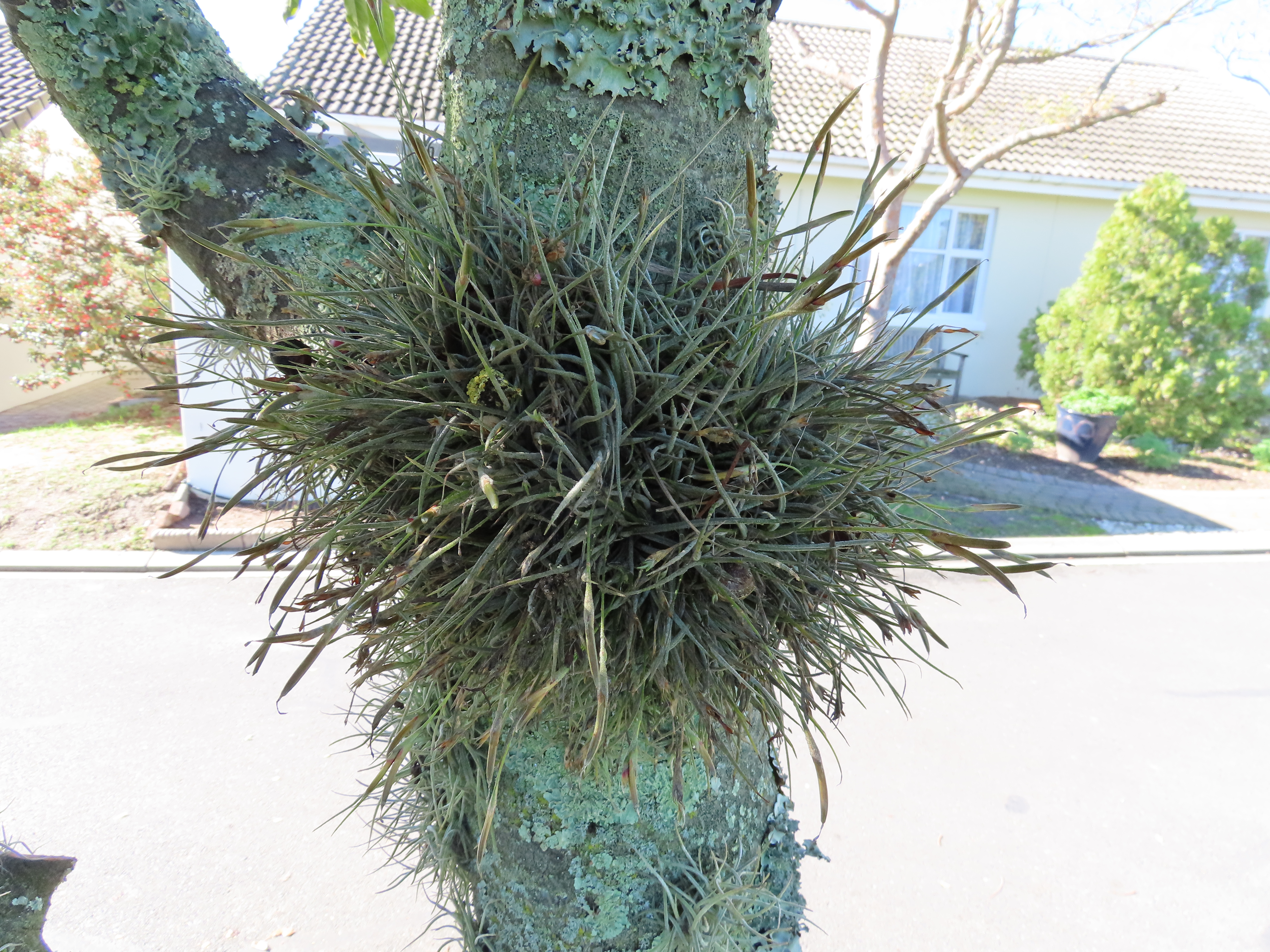 Tillandsia recurvata growing as a harmless epiphyte on Ekebergia in South Africa. Like other species in this genus it is an epiphytic "air plant" but commonly is mistaken for a pernicious parasite that eventually would kill the tree. It is not parasitic nor are its attachment roots significantly harmful to its host. In fact, it commonly grows on wire fences etc, which a parasite could not do. This tree also is infested with foliose lichen that might be harmful, but that has nothing to do with the Tillandsia.